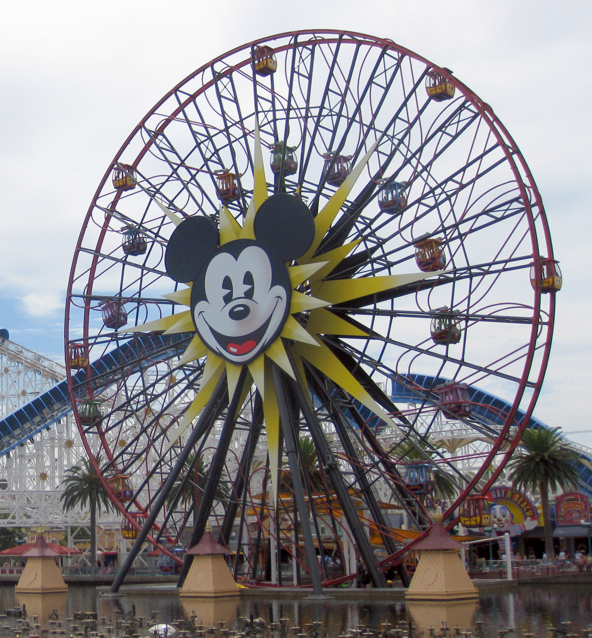 Paradise Pier at Disney's California Adventure, Disneyland Resort